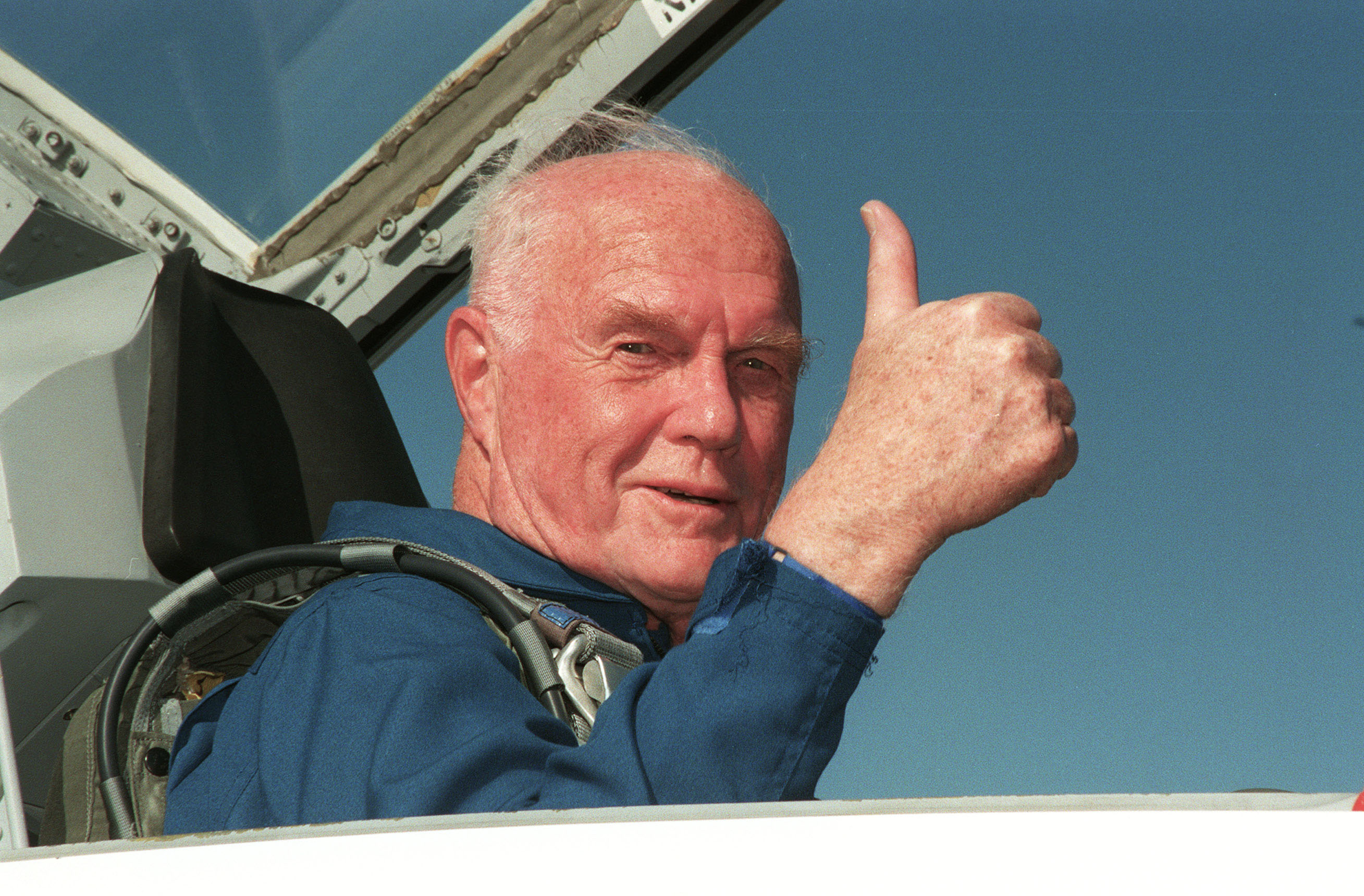 Oct. 26, 1998 -- STS-95 Payload Specialist John H. Glenn Jr., senator from Ohio, gives a thumbs up on his arrival at Kennedy Space Center's Shuttle Landing Facility aboard a T-38 jet. He and other crewmembers will be making final preparations for launch, targeted for liftoff at 2 p.m. on Oct. 29. The STS-95 mission includes research payloads such as the Spartan solar-observing deployable spacecraft, the Hubble Space Telescope Orbital Systems Test Platform, the International Extreme Ultraviolet Hitchhiker, as well as the SPACEHAB single module with experiments on space flight and the aging process. The mission is expected to last 8 days, 21 hours and 49 minutes, and return to KSC on Nov. 7. The other STS-95 crew members are Mission Commander Curtis L. Brown Jr., Pilot Steven W. Lindsey, Mission Specialist Scott E. Parazynski, Mission Specialist Stephen K. Robinson, Mission Specialist Pedro Duque, with the European Space Agency (ESA), and Payload Specialist Chiaki Mukai, with the National Space Development Agency of Japan (NASDA). Photo credit: NASA NASA image use policy.